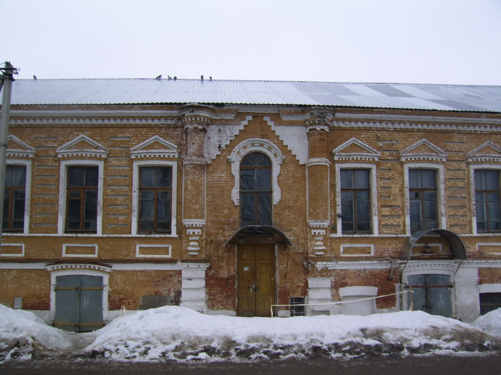 Velizh